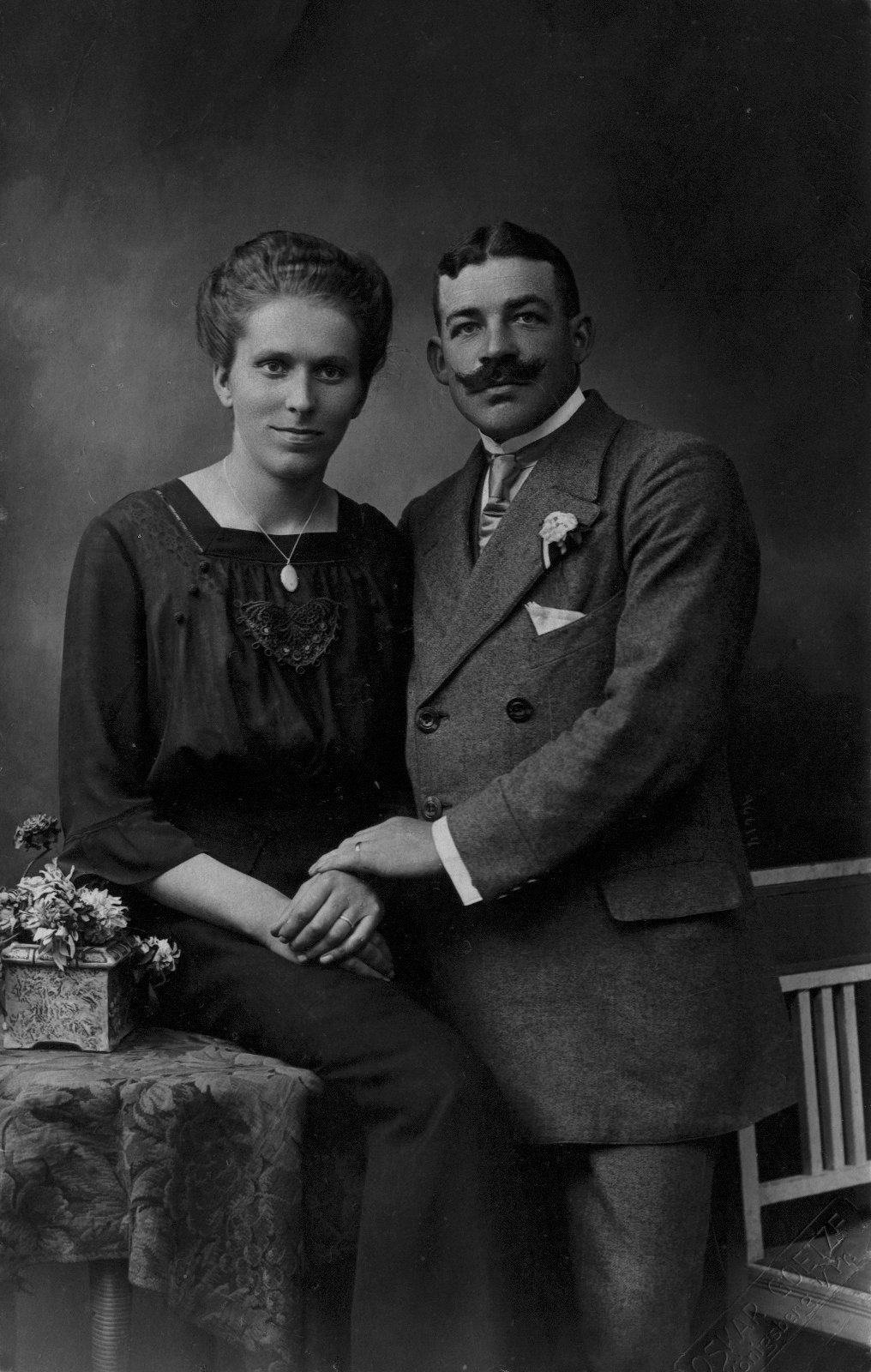 Wedding portrait of my great-grandparents Richard and Elisabeth Gritschke (born Fichte), Fischhausen, East Prussia